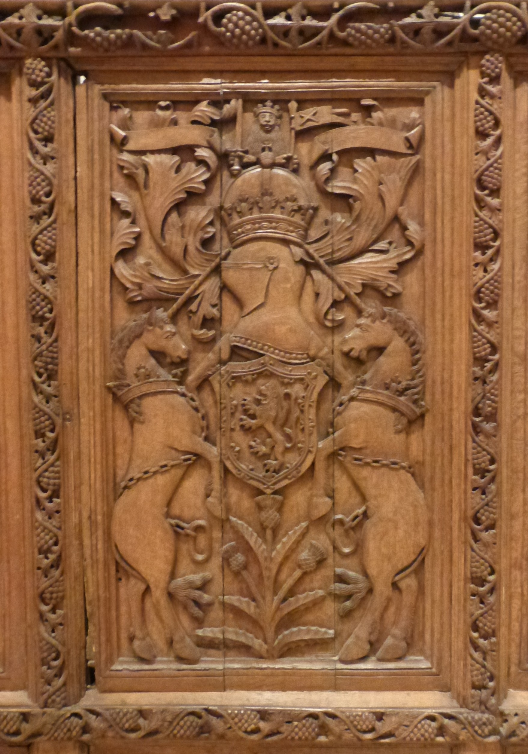 Carving of the Scottish Royal Arms from the apartments of Cardinal David Beaton in St. Andrews Castle, Fife (now in the National Museum of Scotland)